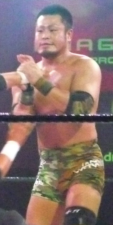 Mark Haskins vs. Fumiyuki Hashimoto, known by his ringname Kagetora (on the right), at the "Dragon Gate Invasion: UK" at the Regal in Oxford.